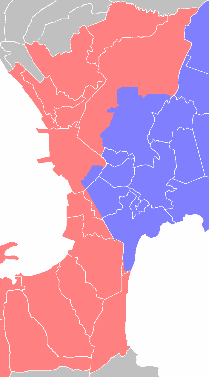 Zones allocated to Maynilad Water (red) and Manila Water (blue). Areas in gray aren't included by the two concessionaires. Source: Map made by Howard the Duck